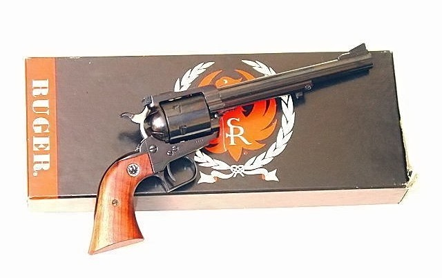 Super Blackhawk 1962